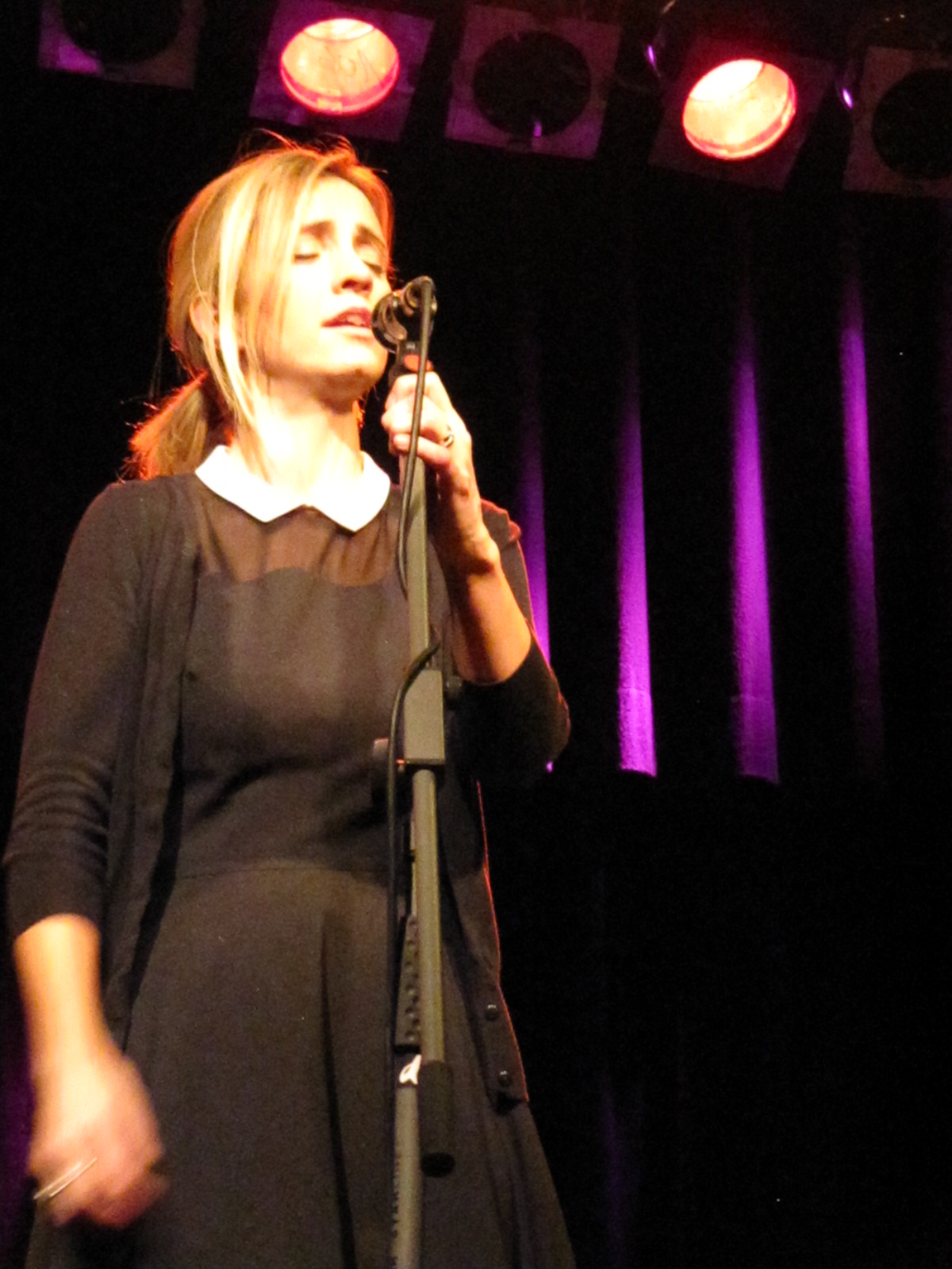 Cara Dillon performing in 2014